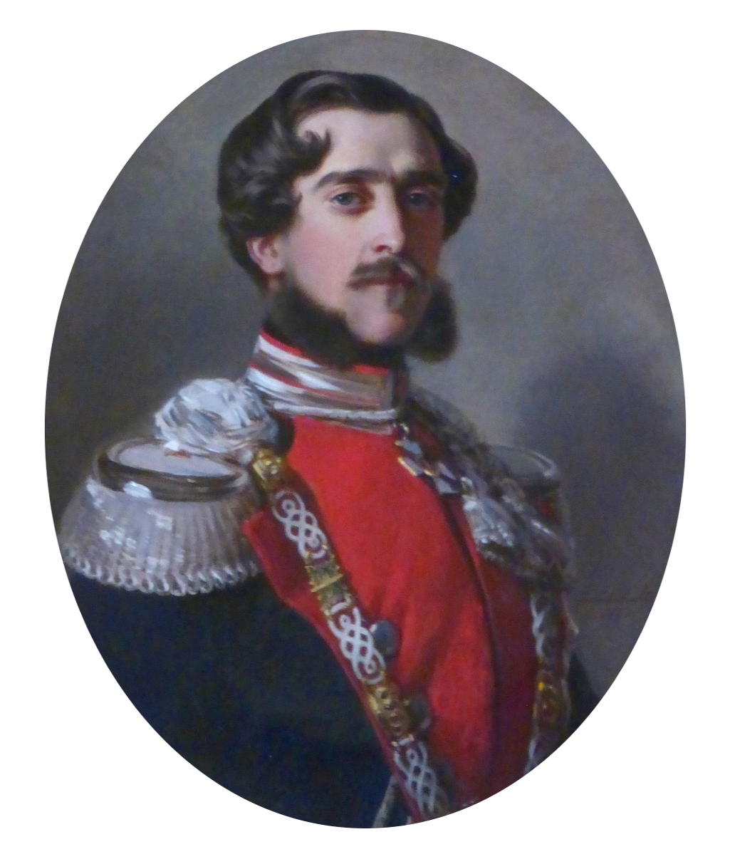 The Grand Duke is wearing the uniform of Lieutenant-General in the 2nd Pomeranian Uhlan Regiment, No. 9, with the collar of the Order of the Bath. He was the son of Grand Duke George of Mecklenburg-Strelitz, whom he succeeded in 1863, and great-nephew of Queen Charlotte. In 1843 he married Princess Augusta of Cambridge.